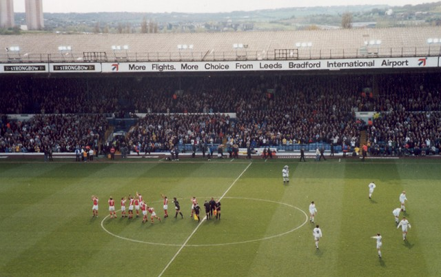 Elland Road looking from the East Stand towards the West Stand (notice the advertising for Leeds Bradford Airport). Leeds were playing Arsenal and lost 4-0. Arsenal finished second in the league that season and Leeds third.